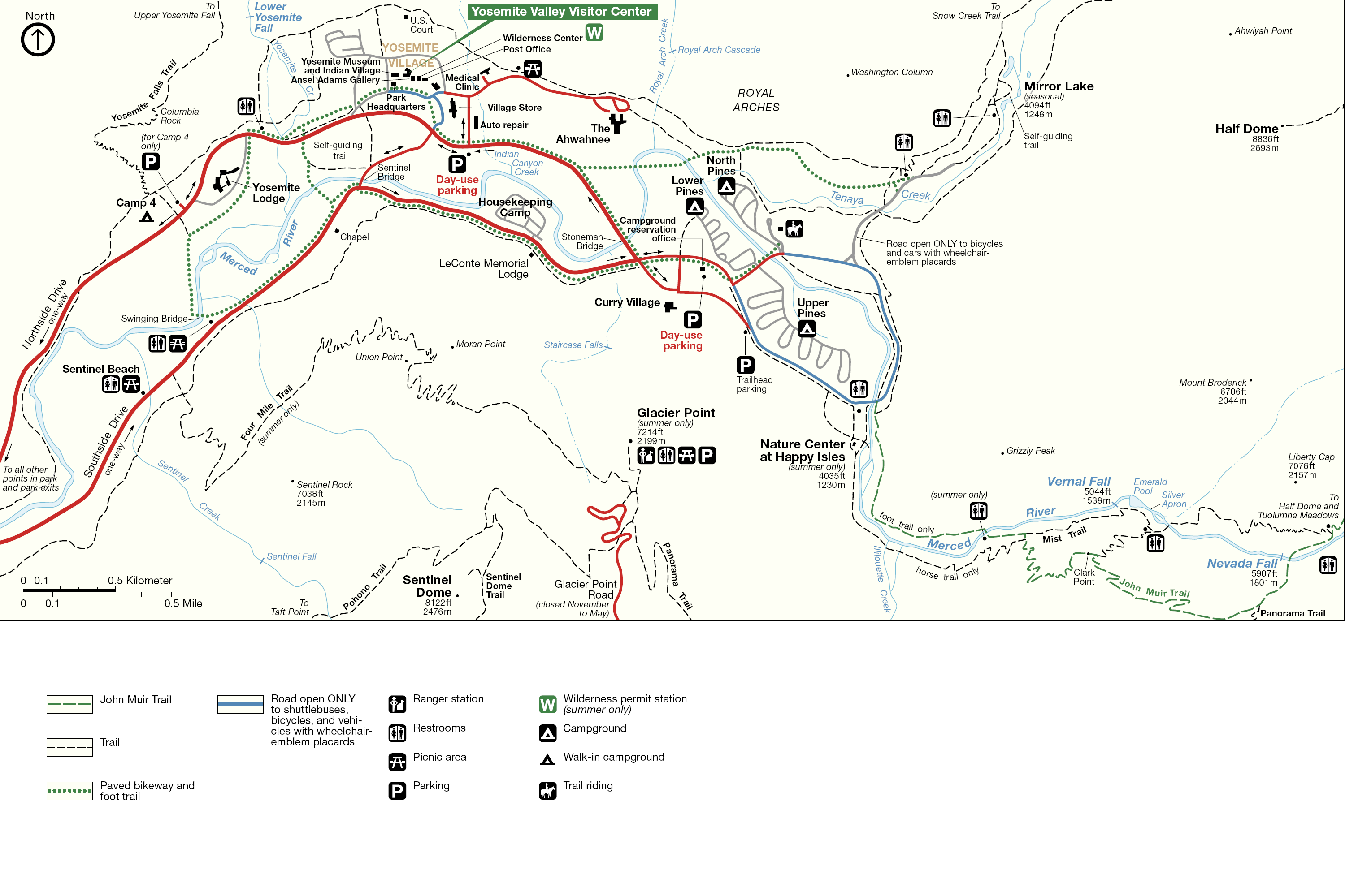 Map of Yosemite valley